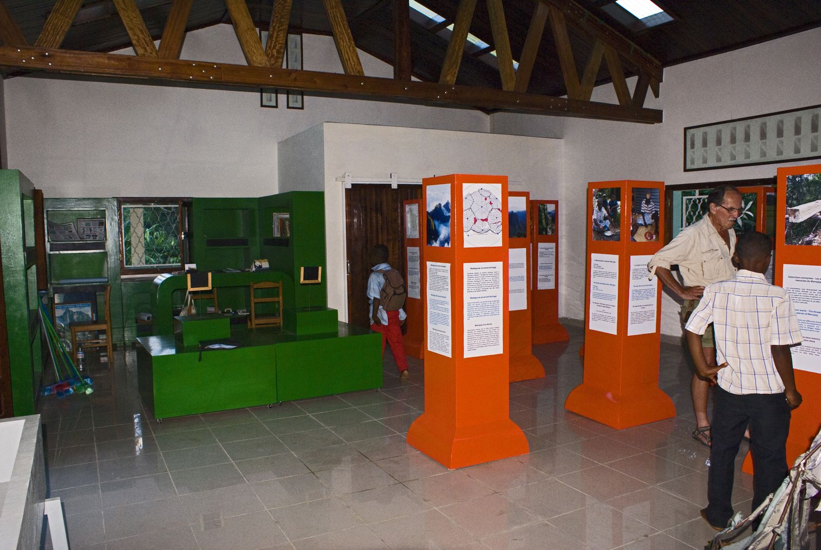 Interpretation Center - Marojejy National Park - Manentenina - Madagascar